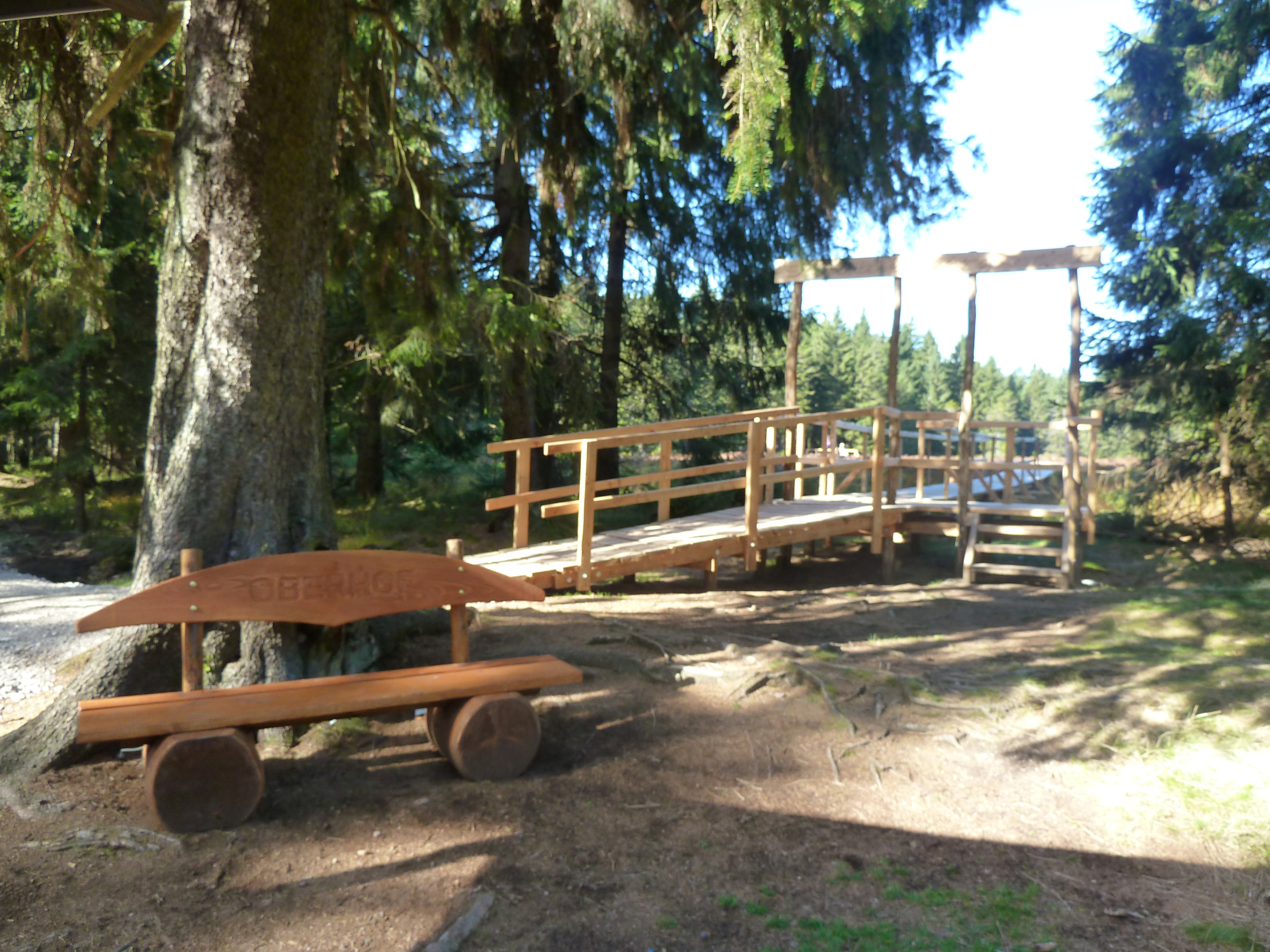 Schützenbergmoor